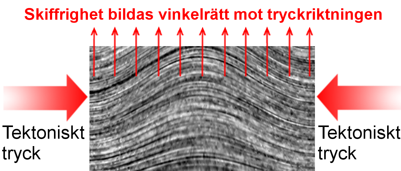 This PNG graphic was created with GIMP. Dynamic metamorphic rock, swedish text - Information for this image can be found in the book: Jorden - Illustrerat uppslagsverk/sid:80 /Förlag: Globe förlaget,2005,/ ISBN 91-7166-020-8 /Orginal title: Earth (ISBN 1-4053-0018-3)(2003 Doring Kindersley)